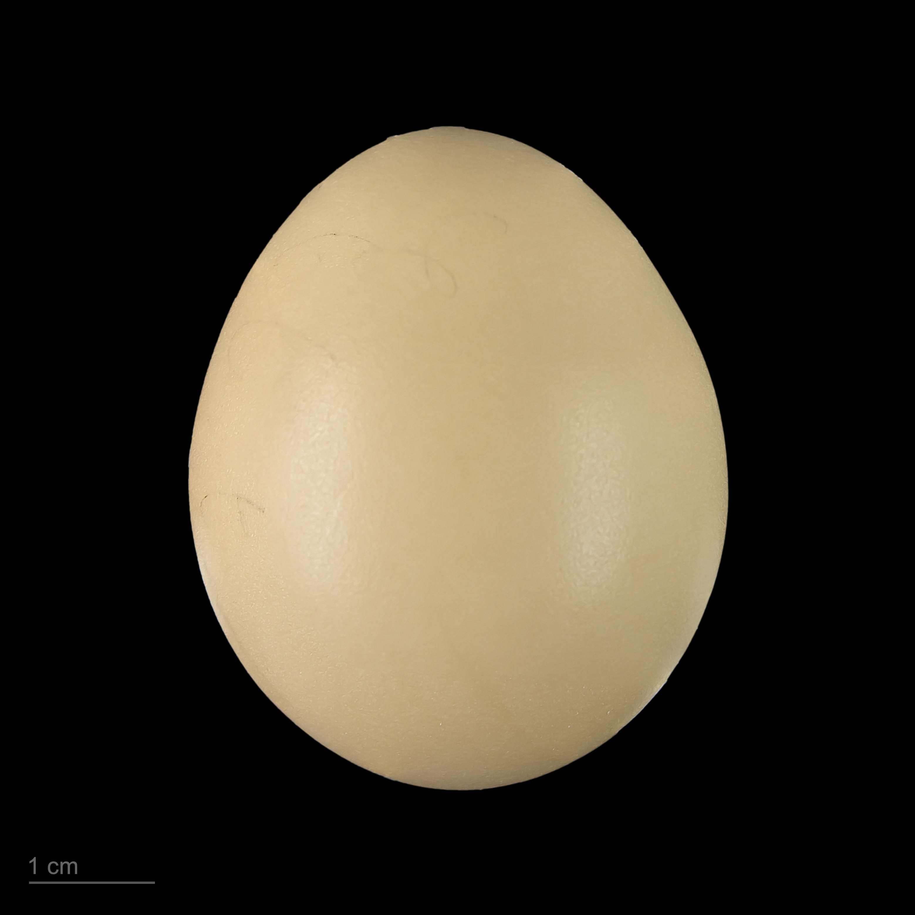 Egg of Elliot's pheasant Collection of Jacques Perrin de Brichambaut.